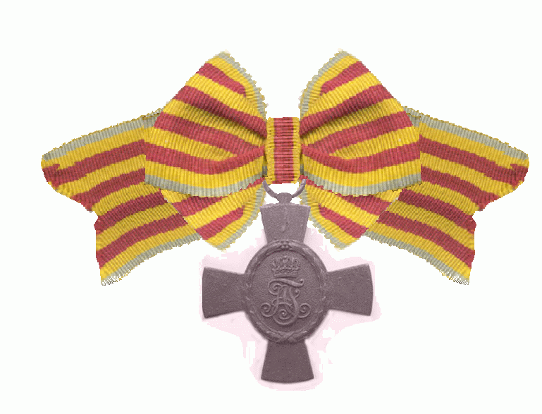 Adolf-Friedrich-Kreuz von Mecklenburg-Strelitz Adolf-Friedrich-Cross